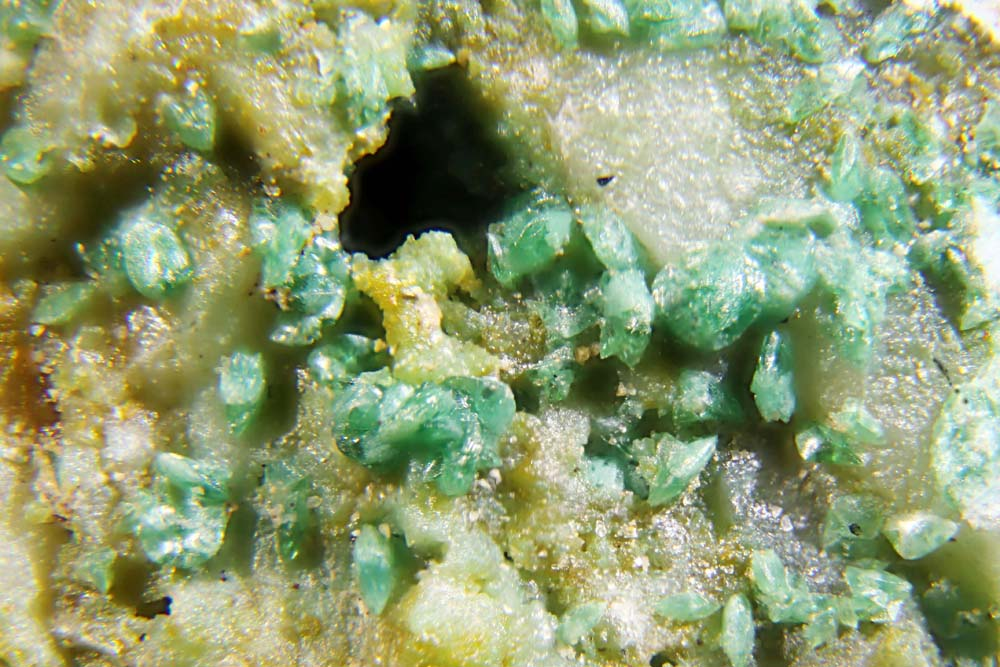 Outstanding green sharp crystals of the very rare mineral litidionite from a locality in Nevada (Snowstorm Mine, Lander County, Nevada, United States of America). Ex. Globo de Plomo specimen and Ex.F.Bauer specimen.